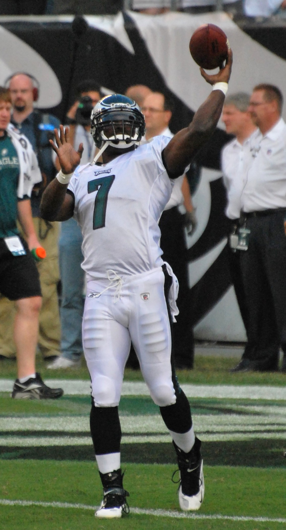 Mike Vick with Philadelphia